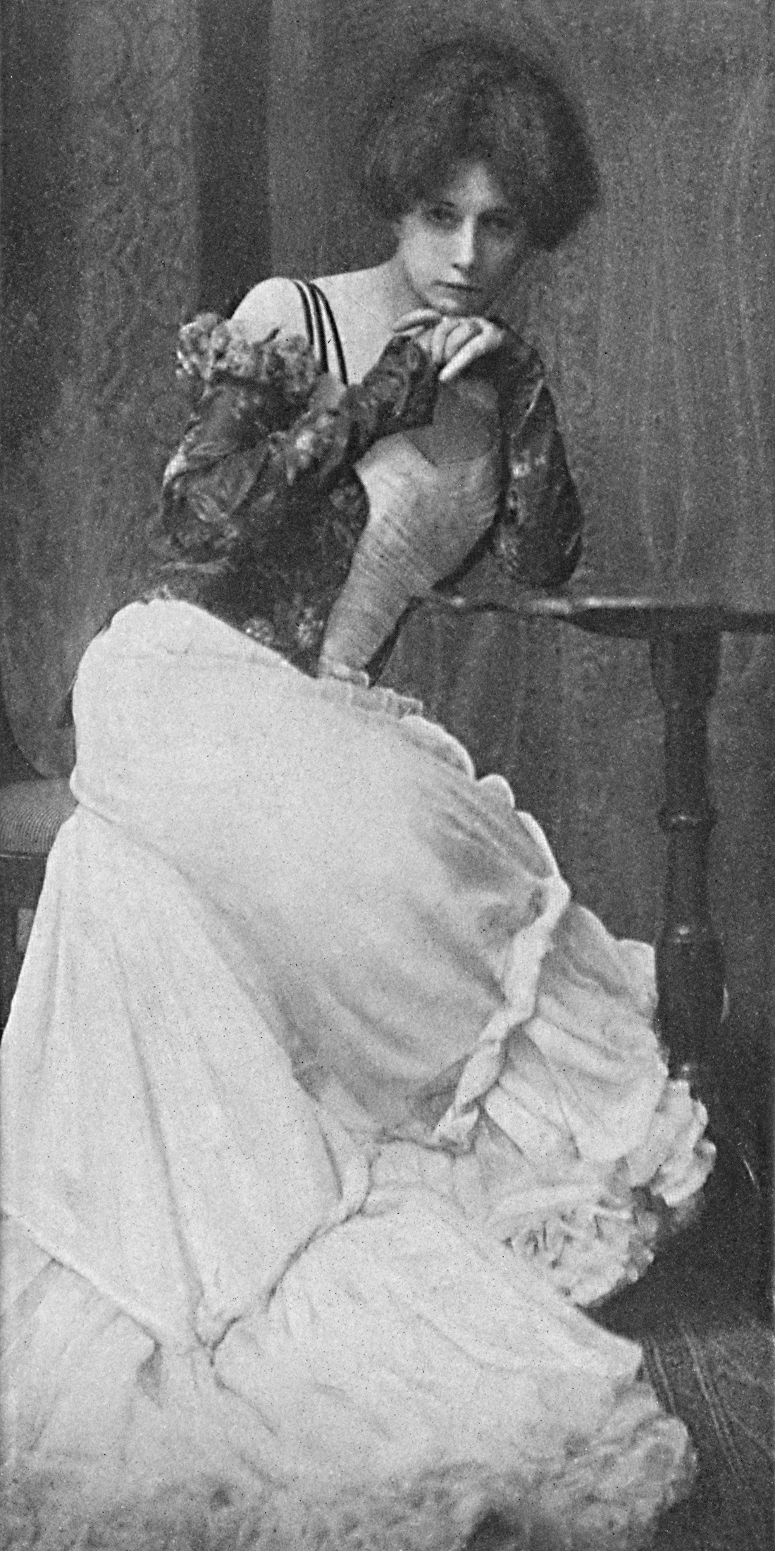 Self-portrait of American photographer Zaida Ben-Yusuf (1869-1933) accompanying her article "The New Photography — What it has done and is doing for Modern Portraiture," published in the "Metropolitan Magazine", Vol. XIV, no. III (Sept, 1901), p. 391.